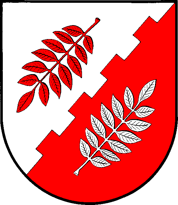 Coat of arms of the municipality Altenhof in Schleswig-Holstein, Germany.